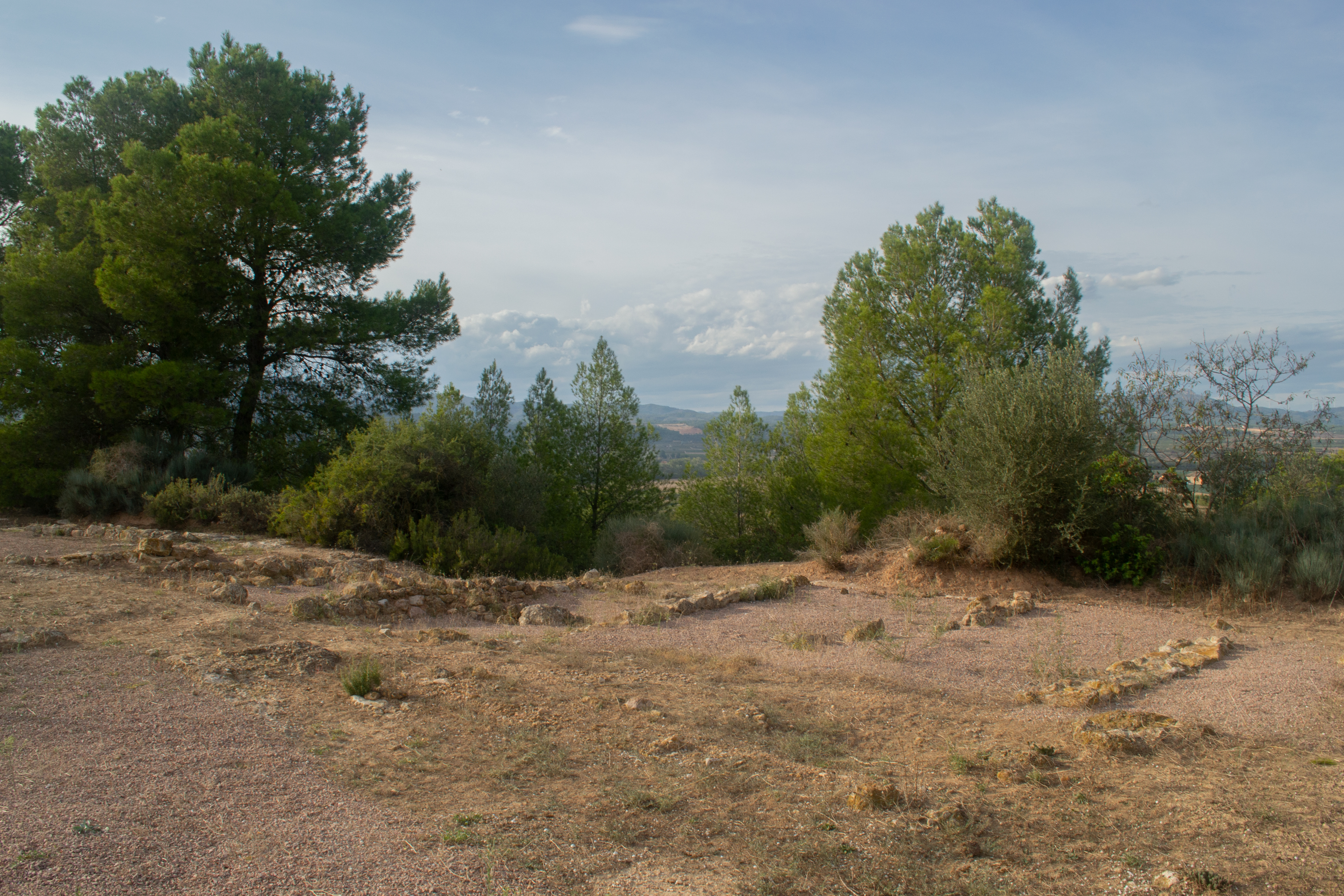 Buildings at the prehistoric site of Barranc de Gàfols